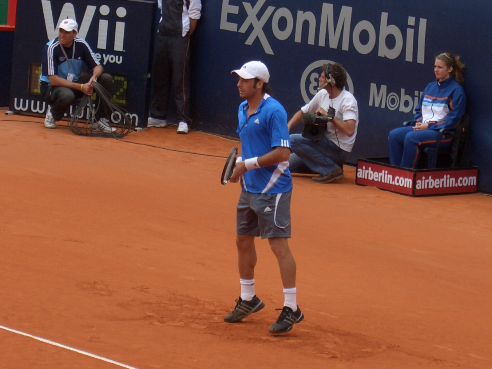 Nicolas Massu warming up for the match vs Marat Safin at the Hamburg Masters 2007